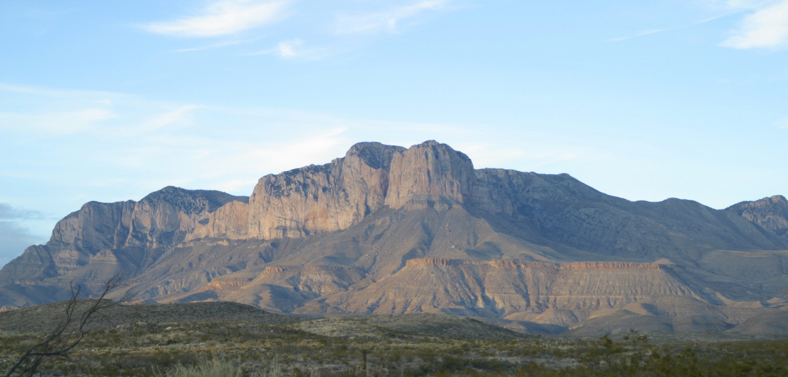 View of El Capitan in the Guadalupe Mountains of West Texas (2006)